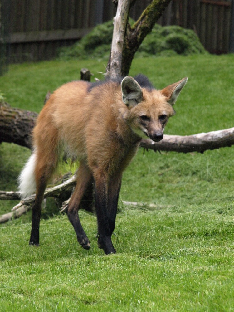 Maned Wolf in the zoo in Děčín, Czech Republic.